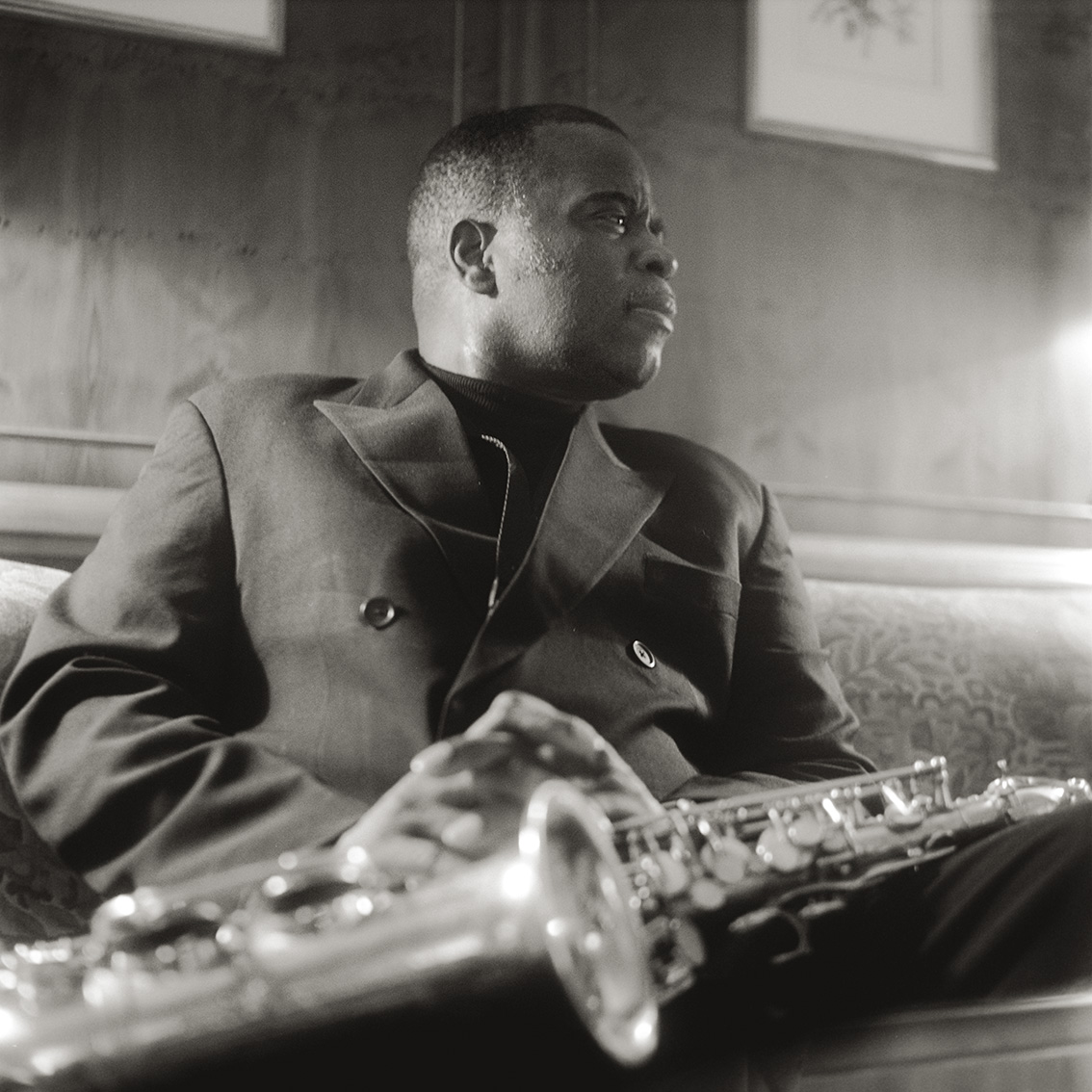 Hamburg/Germany 2000